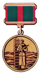 Award Border Guard Forces of Ukraine - Award "For courage in protecting the state border of Ukraine" (2000). Small variant.